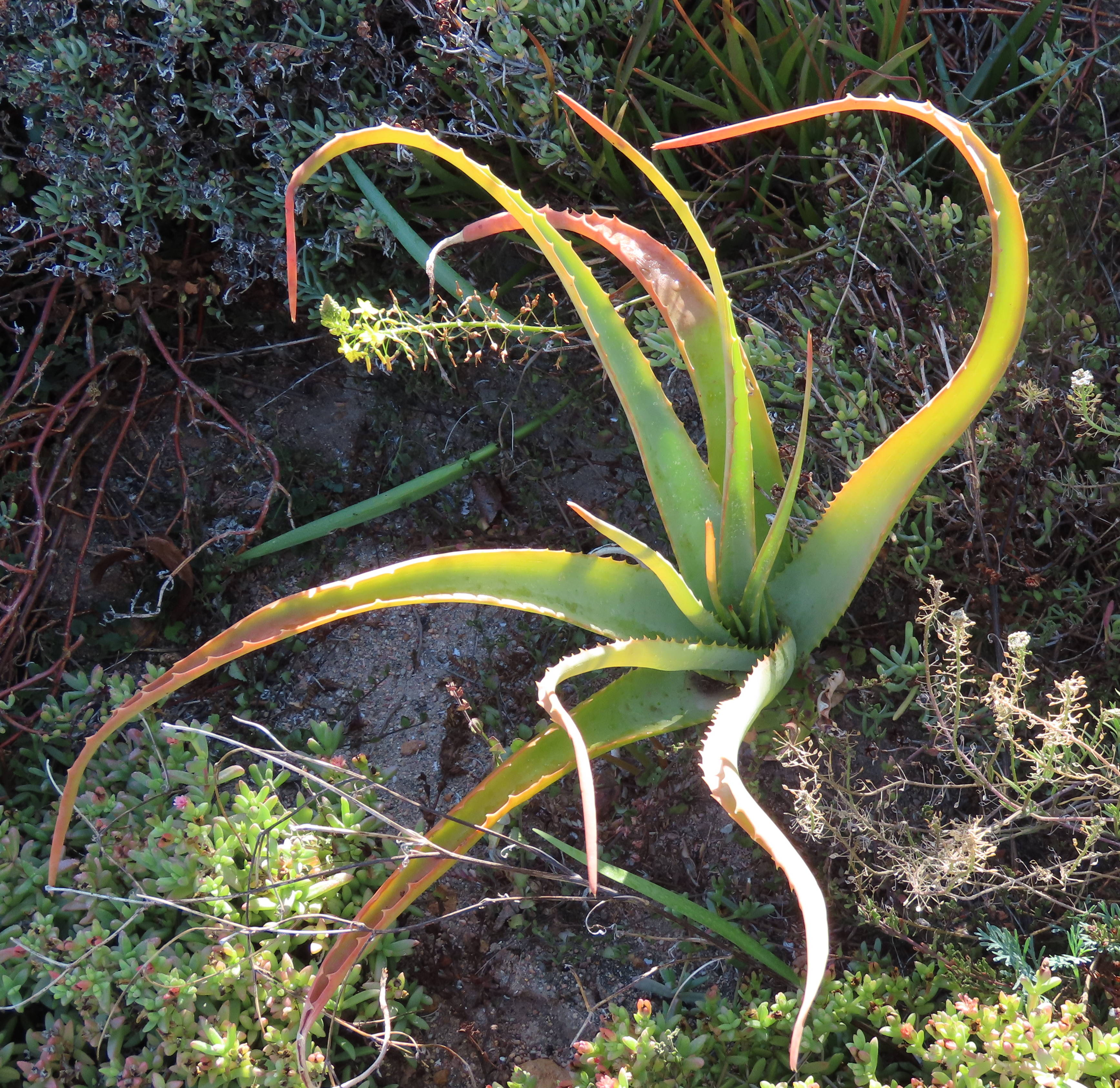 Narrow leaves, broadest at base, tapering to elongated tip, may be described as subulate. These leaves incidentally are succulent and dentate as well.